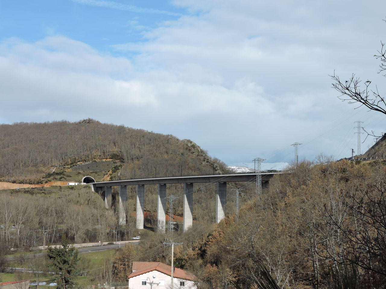 Obras del viaducto de Huergas y boca del túnel de Nocedo de Gordón ya con postes de catenaria.